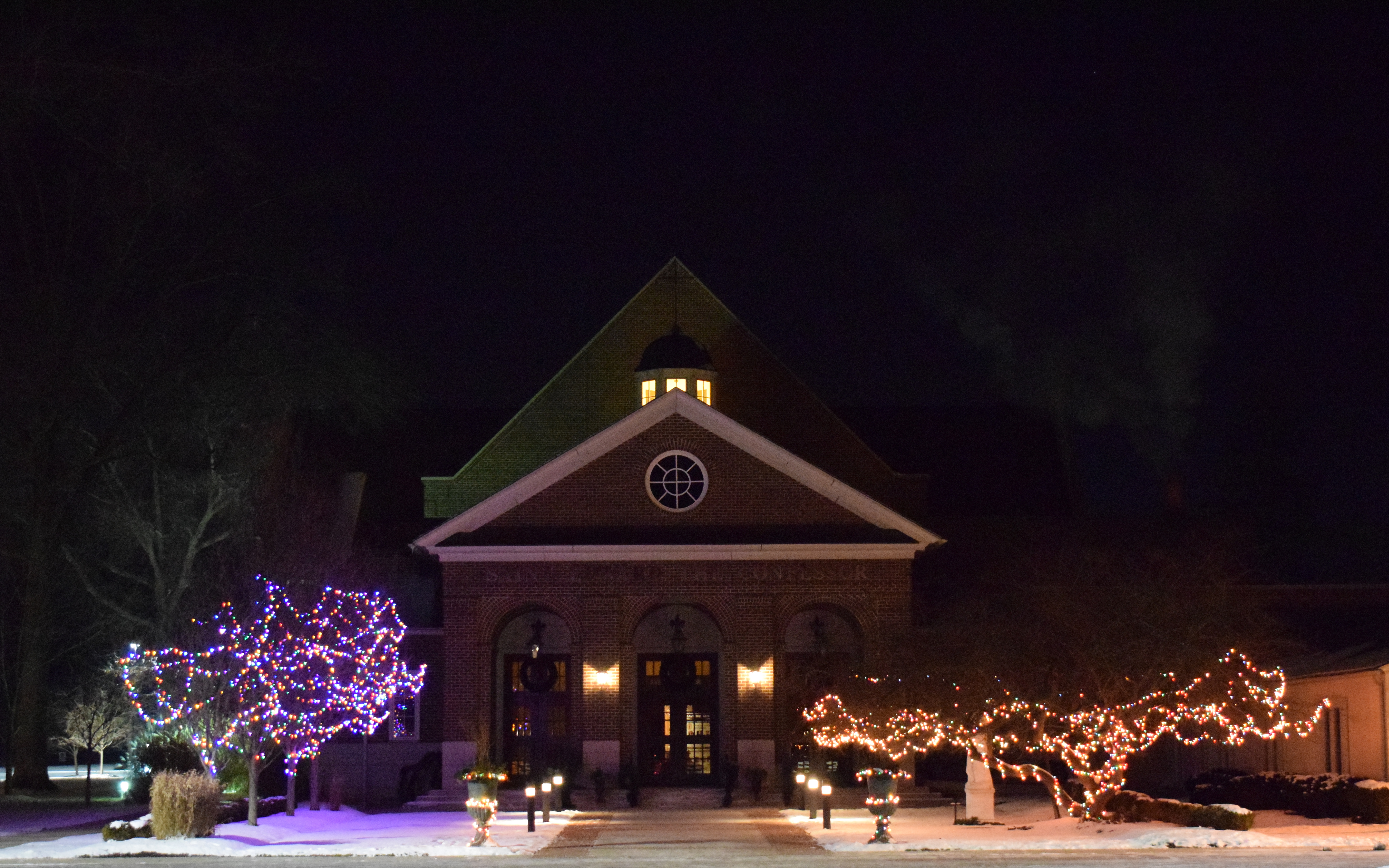 Saint Edward the Confessor Church (Granville, Ohio) - exterior with Christmas lights